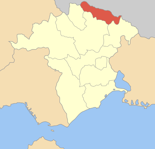 Locator map of Thermes community (Κοινότητα Θερμών) in Xanthi prefecture (Νομός Ξάνθης) in Greece.